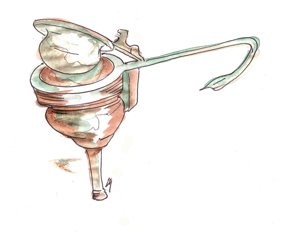 My sketch of etruscan infundiblum